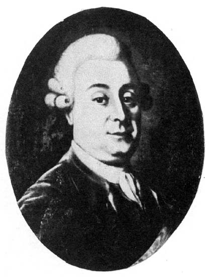 Prince Pyotr Nikitich Troubetzkoy, 1724-91